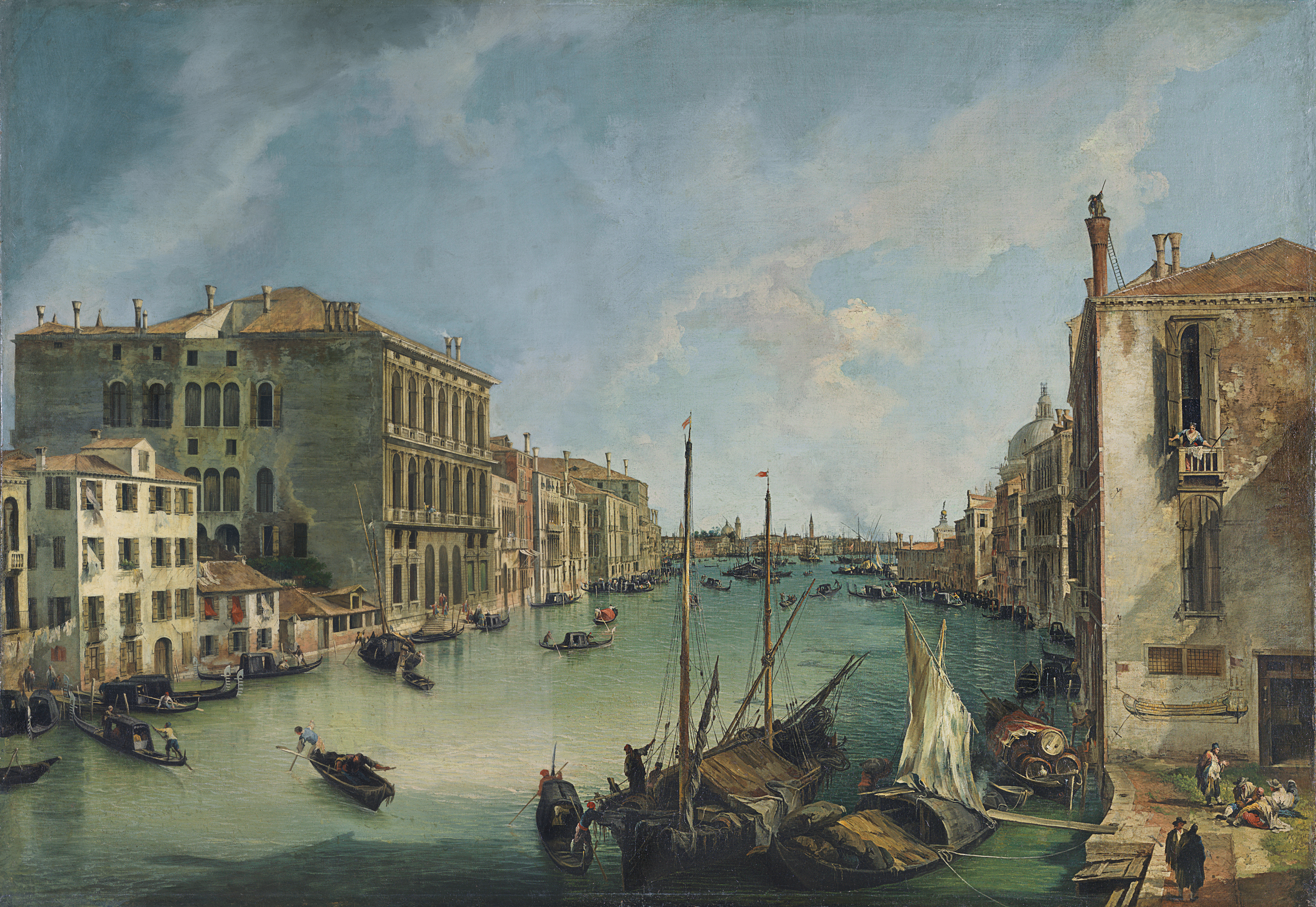 Le Grand Canal tel qu'on le voit quand on regarde vers l'Est à partir de la Place San Vio à Venise. The Grand Canal as we can see it when looking East from the Campo San Vio in Venice.